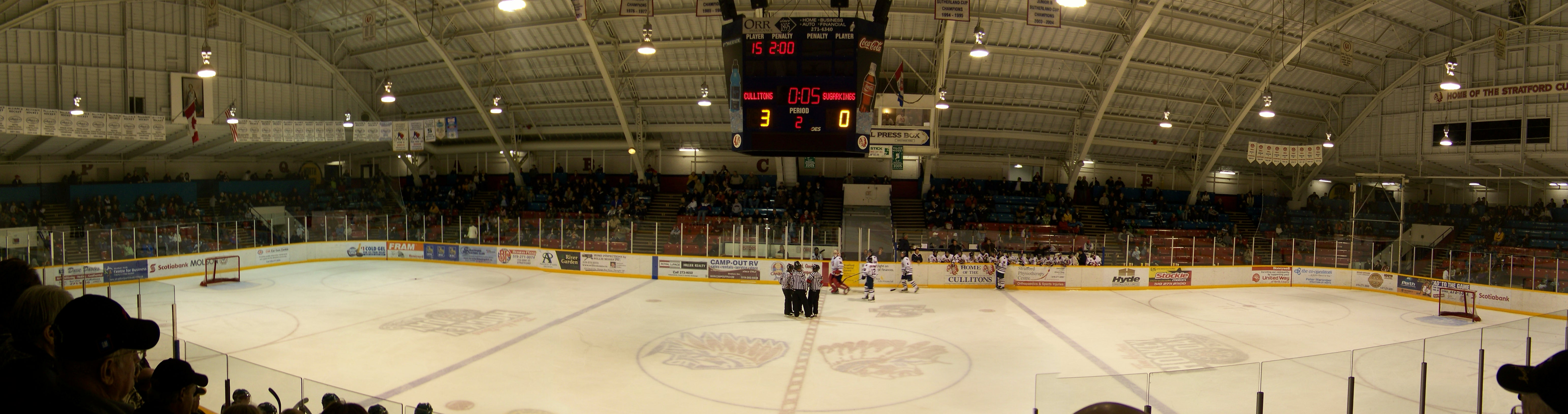 William Allman Memorial Arena Panorama